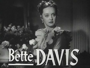 Cropped screenshot of Bette Davis from the trailer for the film Jezebel.